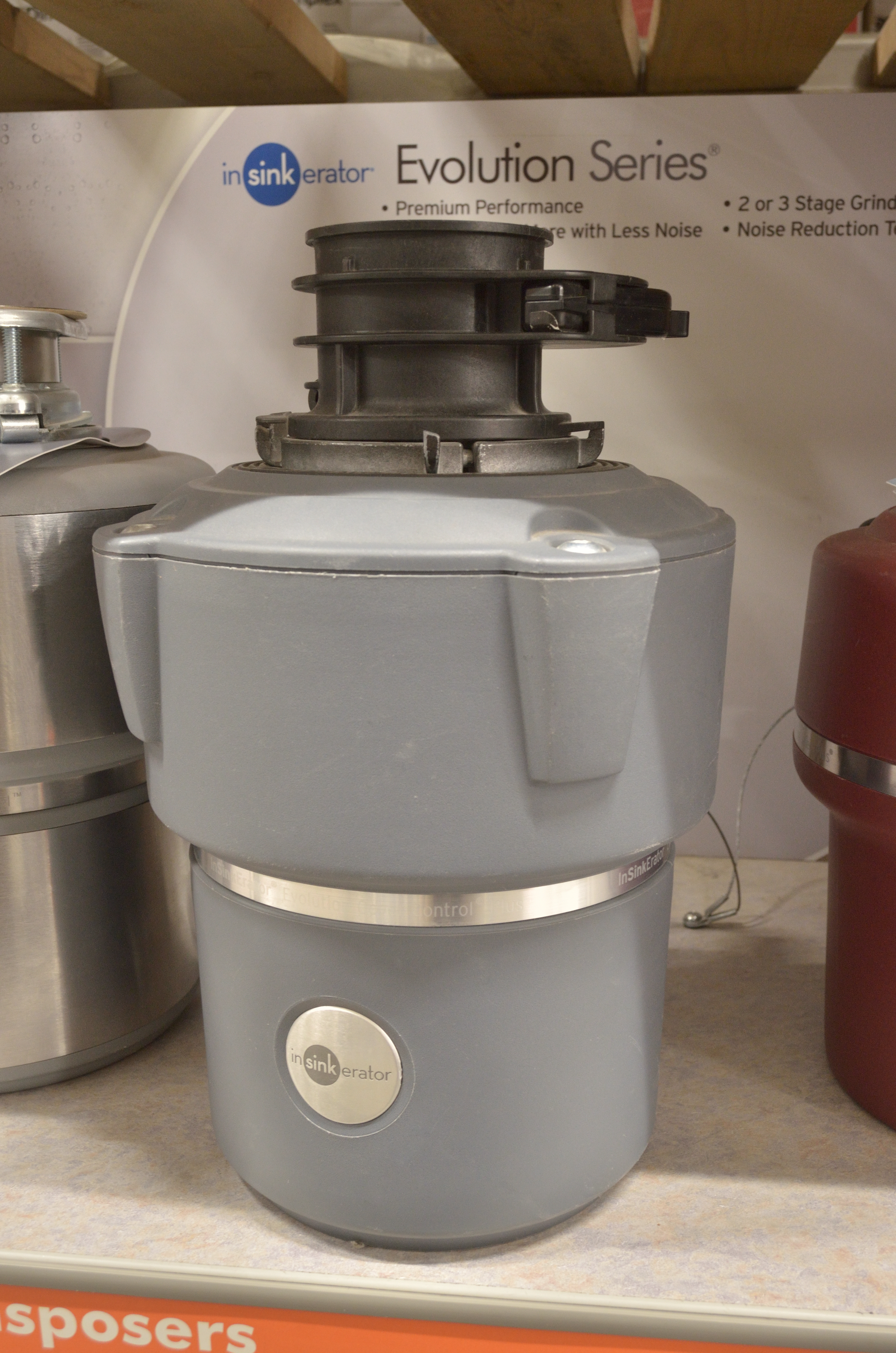 InSinkErator Evolution series